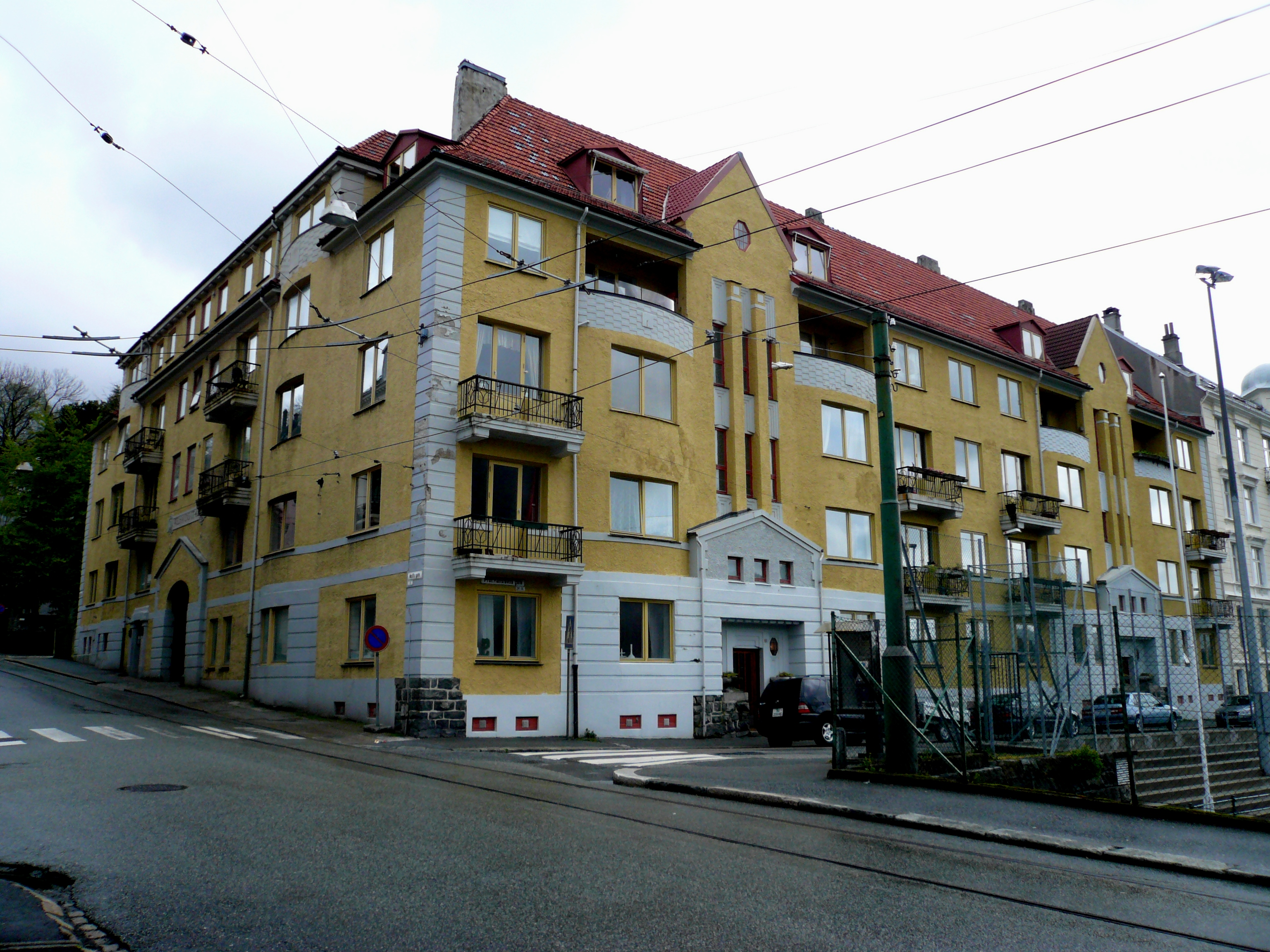 Welhavensgate 42, Bergen, Norway